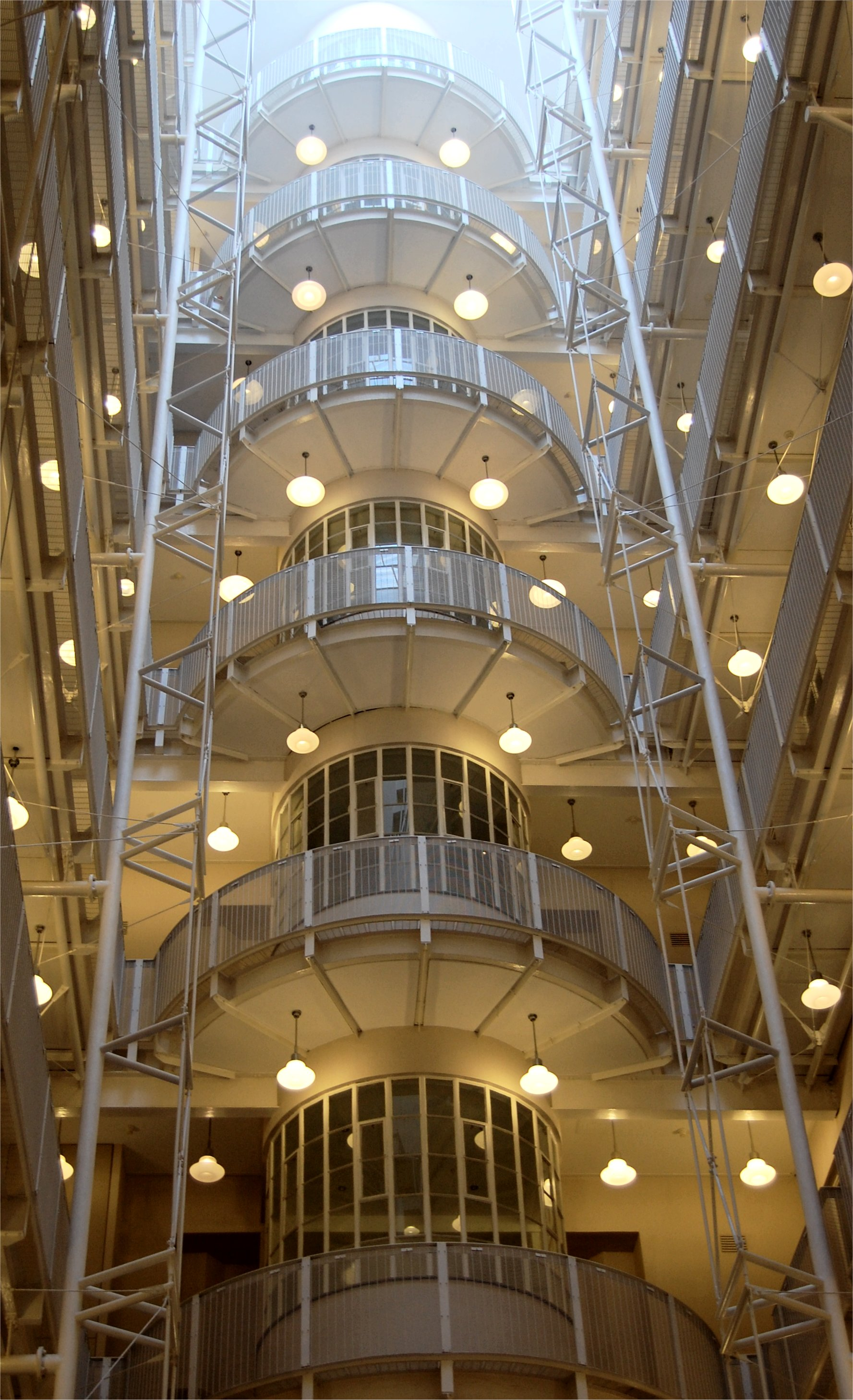 When in commcercial use, this Atrium was open to the weather. The building is now converted to residential use and there is a transparent roof; there are 12 levels of accommodation, seven lifts, and more than 180 apartments.